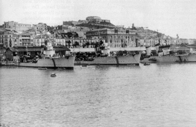 Swedish destroyers Remus, Romulus and last Puke, with list in order to mend damaged hull. In Cartagena, Spain, april 1940.